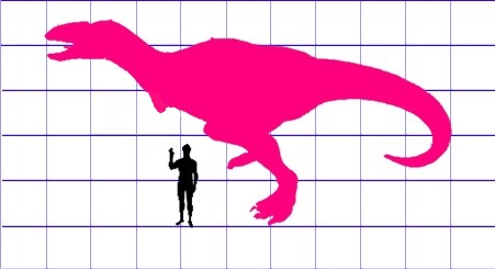 A size comparison of Abelisaurus comahuensis and a human.